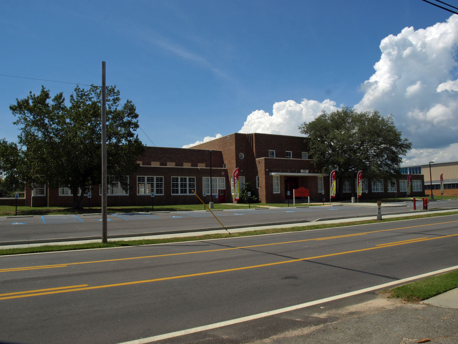 Old Pascagoula High School in Pascagoula, Mississippi, listed on the National Register of Historic Places